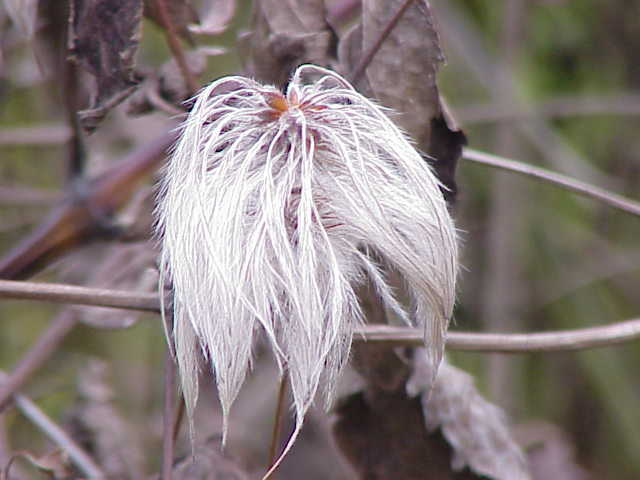 Species: Clematis fargesii Family: Ranunculaceae Image No. 1